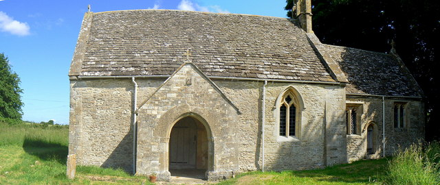 All Saints' Church Shorncote, near to Shorncote, Gloucestershire, Great Britain. The tiny church built about 1170 of Cotswold stone & slate